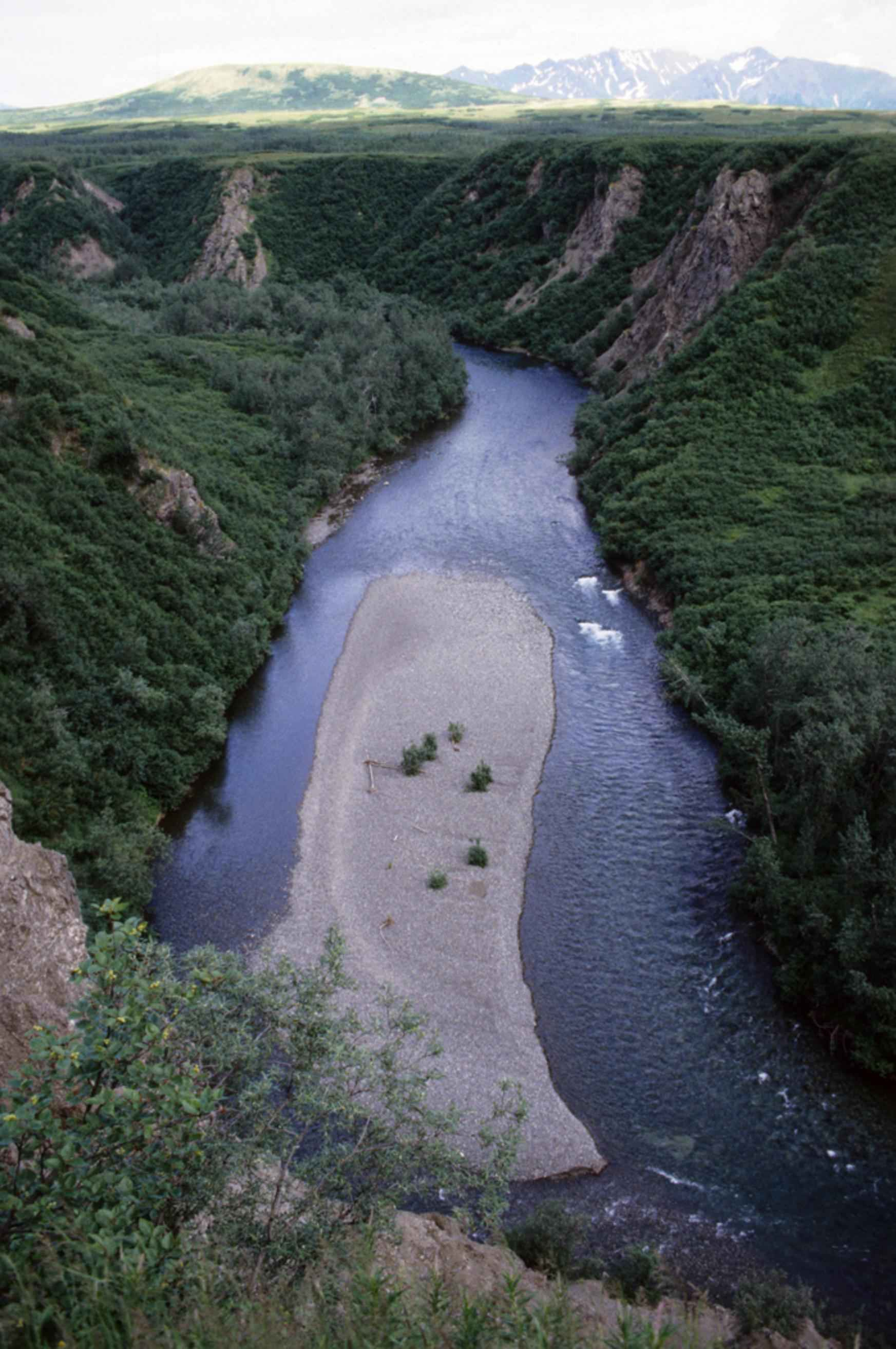 Image title: River sandbar Image from Public domain images website